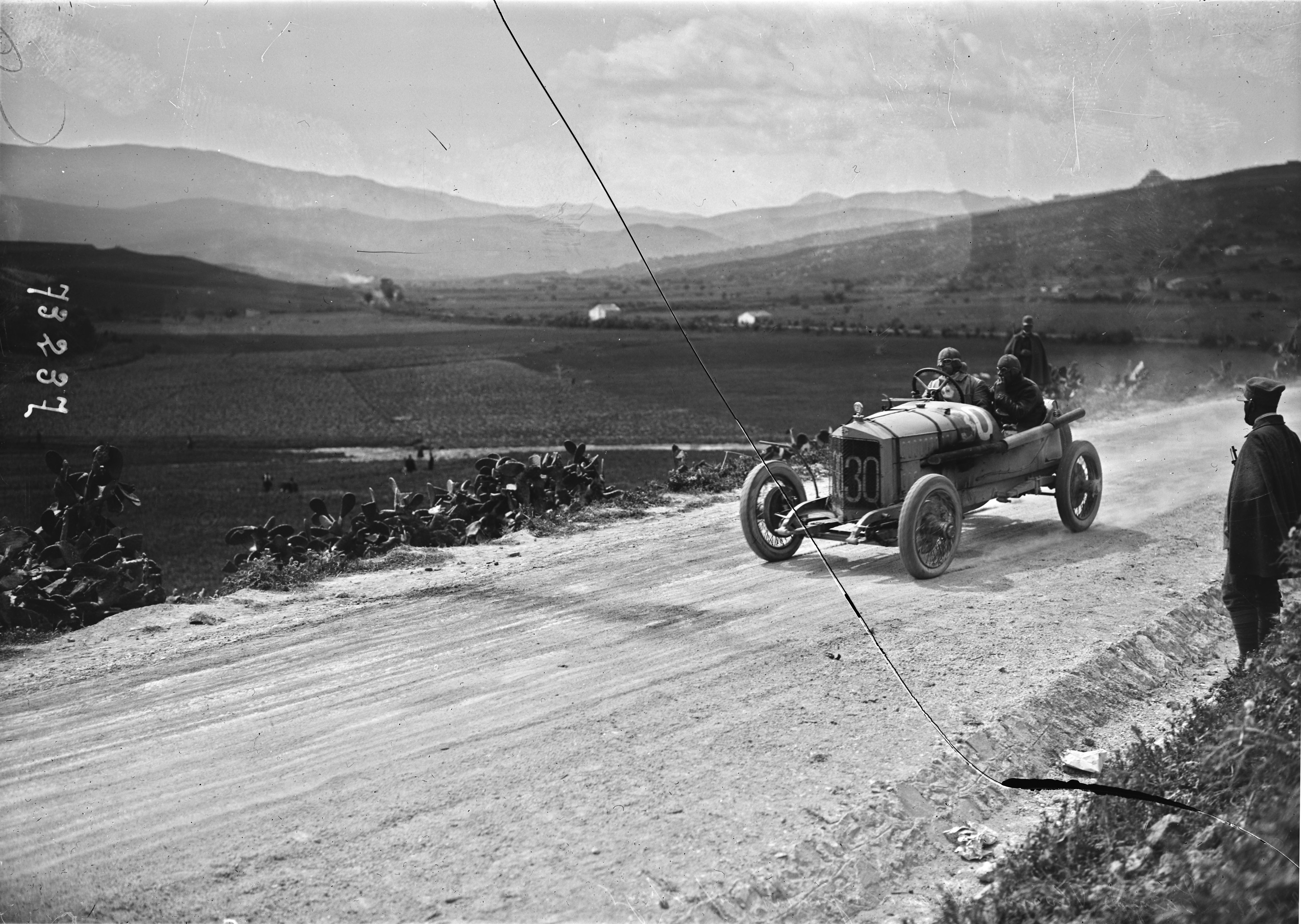 Otto Hieronimus in his Steyr at the 1922 Targa Florio.